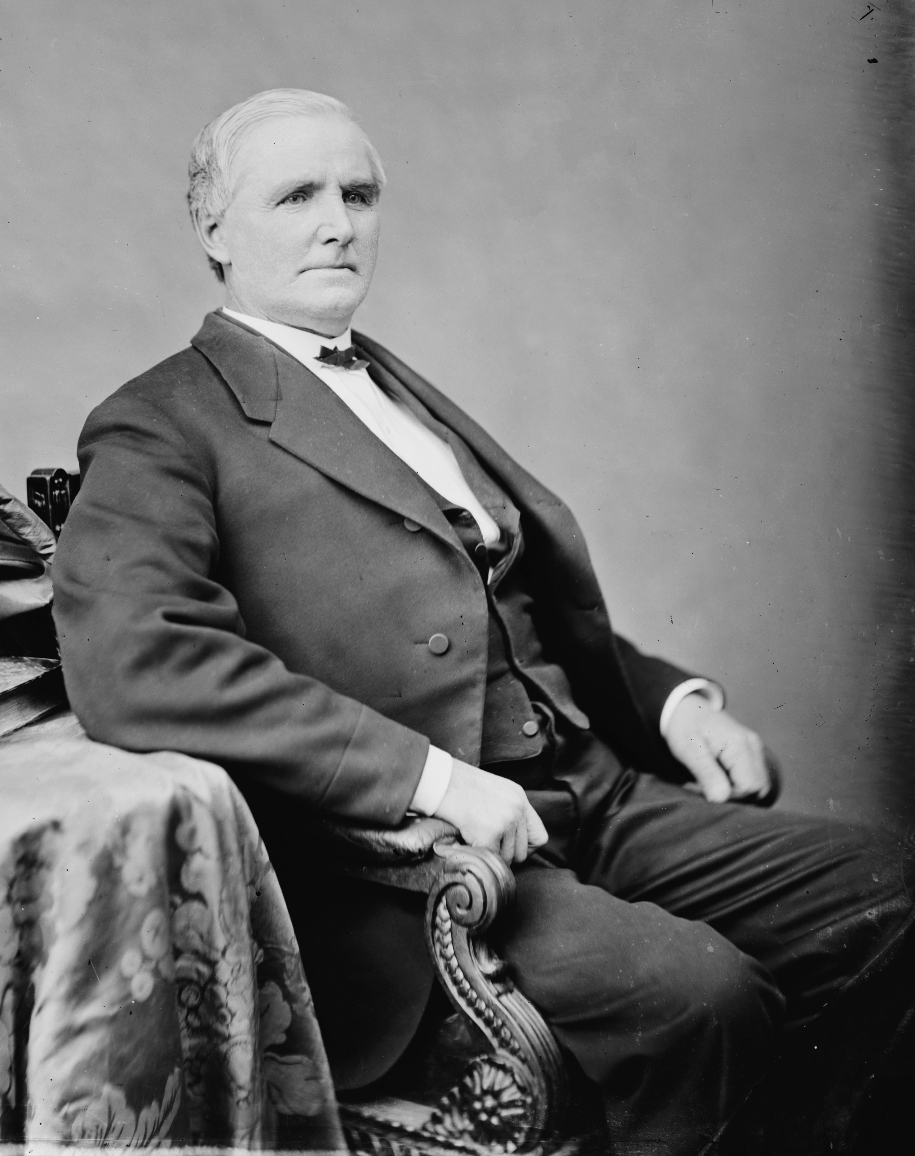 Robert Stell Heflin. Library of Congress description: "Hon. Robert Stell Heflin of ALA"